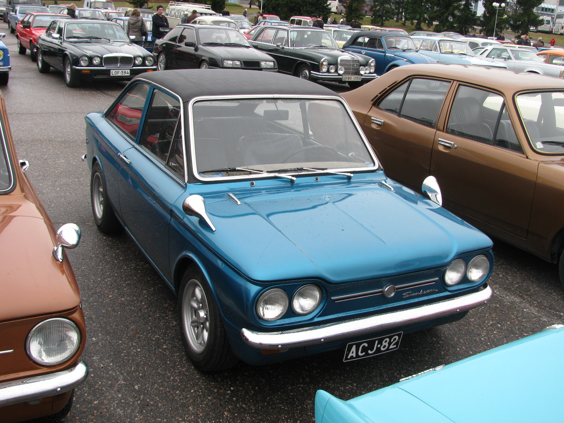 Sunbeam Stiletto, Classic Motor Show parking lot in Lahti, Finland.